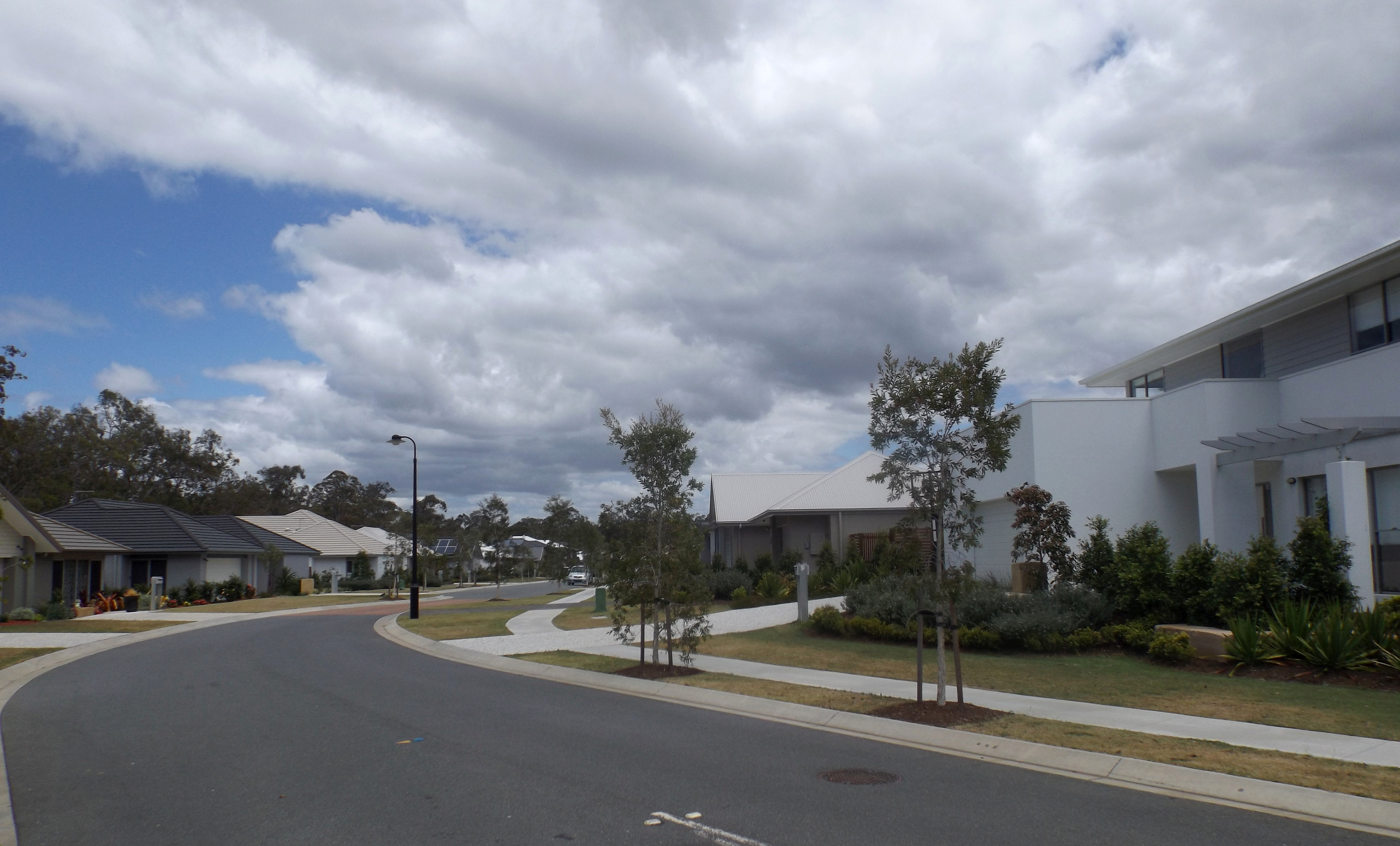 Photo of Watervale Parade at Wakerley in Brisbane, Queensland, Australia.